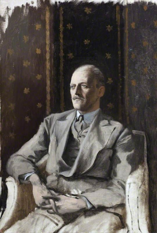 Charles Paget (1885–1947), 6th Marquess of Anglesey